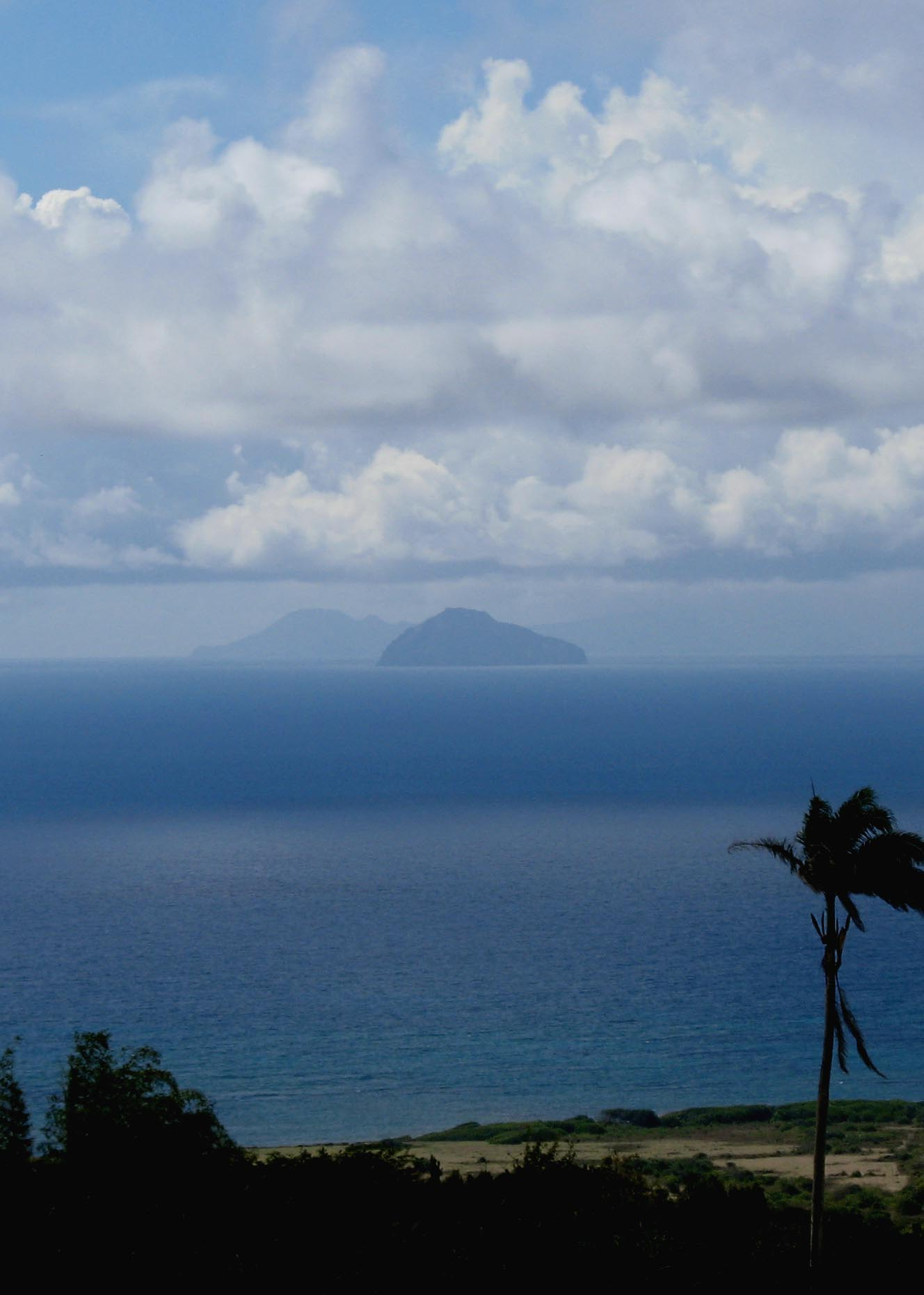 View across the ocean of the small uninhabited island Redonda (and Montserrat in the distance) from circa 1,000 feet up on the southeastern slope of Nevis Peak, on the island of Nevis, Leeward Islands, West Indies.